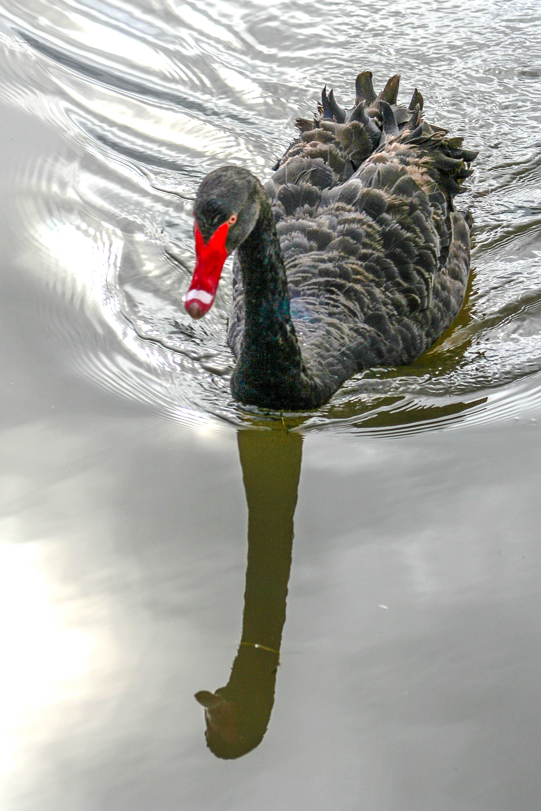 JWOC 2007, the World Junior Orienteering Championships in Dubbo, New South Wales, from July 4 - 14, 2007...the first event was held on the extensive grounds of the Tarong Western Plains Zoo on July 8th...Black Swan (Cygnus atratus)...